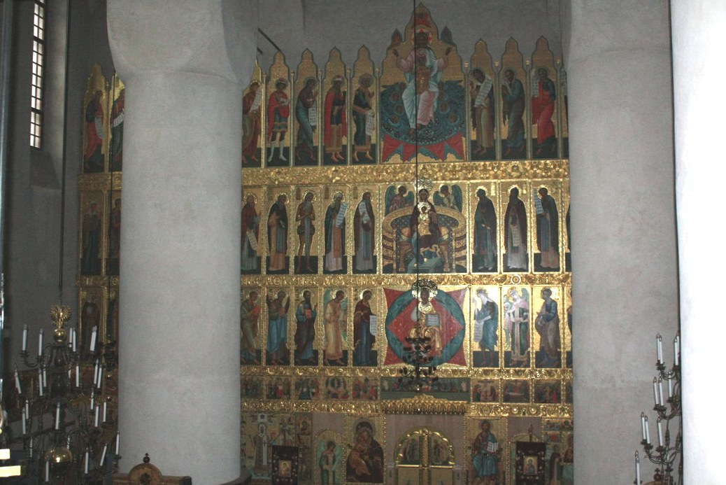 Feodorovsky Cathedral in Tsarskoye Selo. The upper church iconoclasis